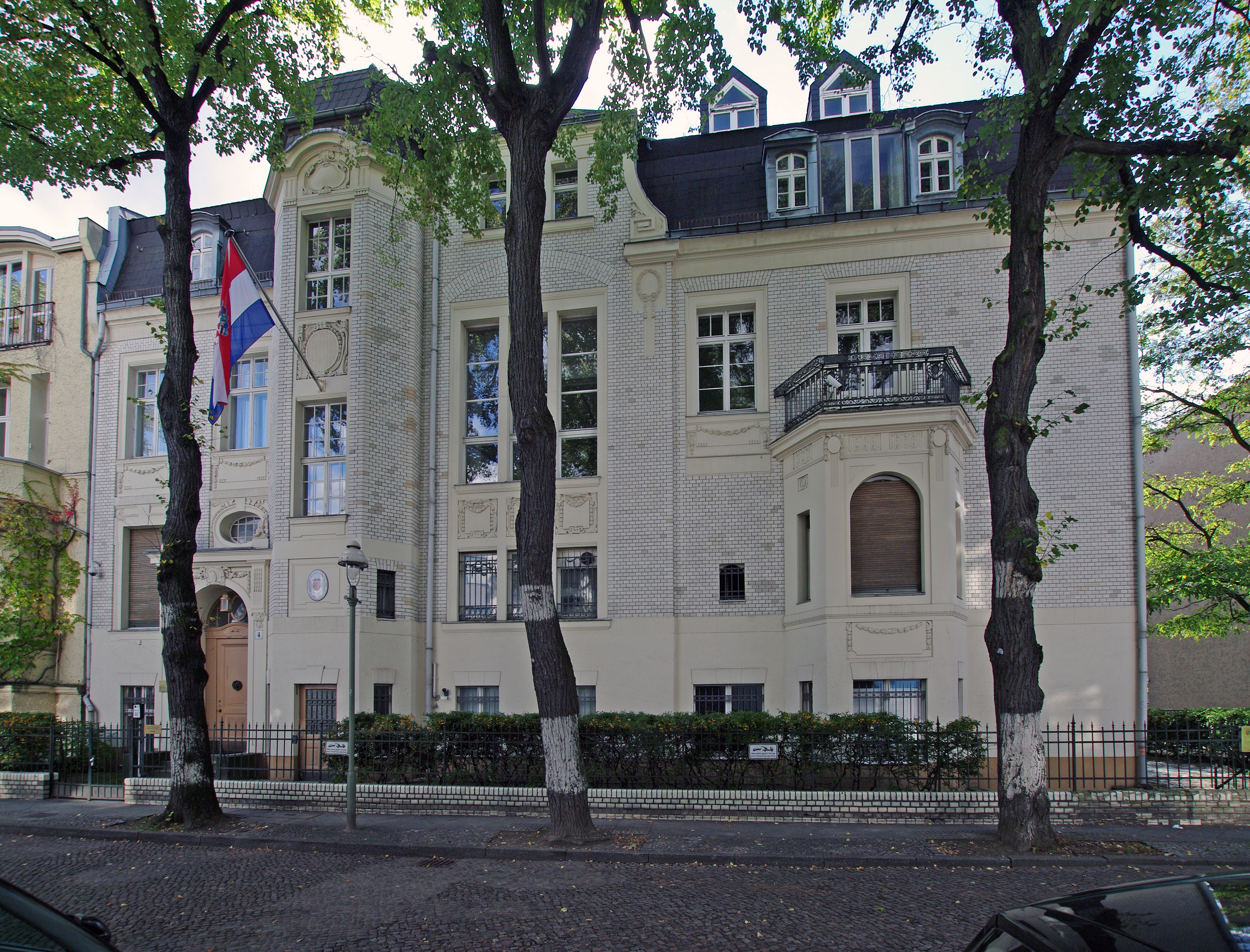 Croatian Embassy in Germany, Ahornstraße, Berlin-Schöneberg.